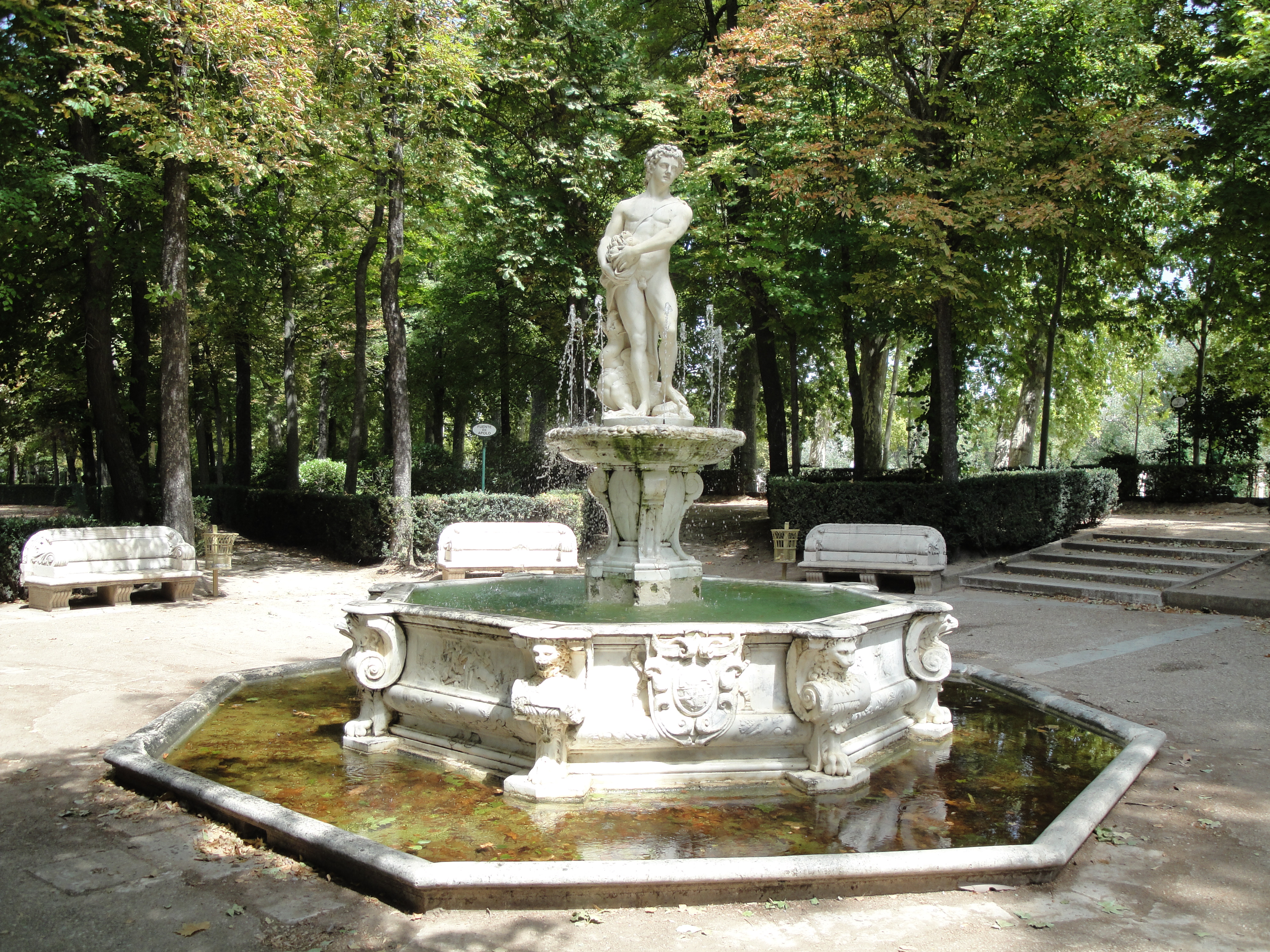 Fuente de Apolo en el Jardín de la Isla de Aranjuez